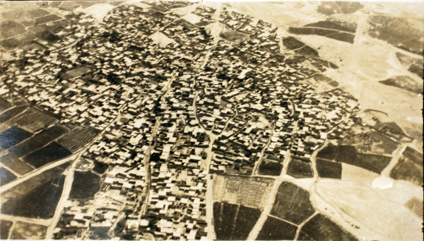 Kirkuk from the air.